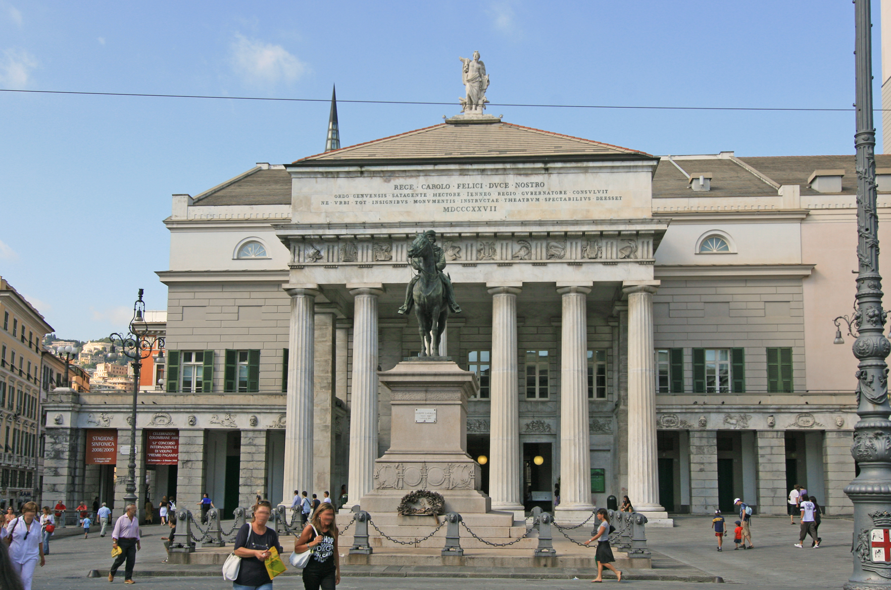 Carlo Felice theater, Genova, Italy.